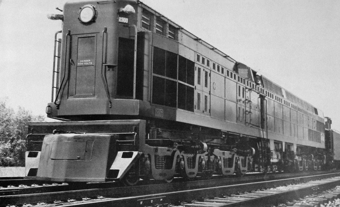 Photo of the Norfolk and Western steam turbine locomotive 2300 Jawn Henry from a Du Pont paint ad in a railroad trade magazine.